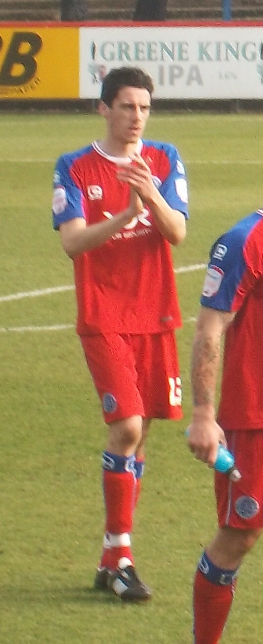 Peter Vincenti playing for Aldershot